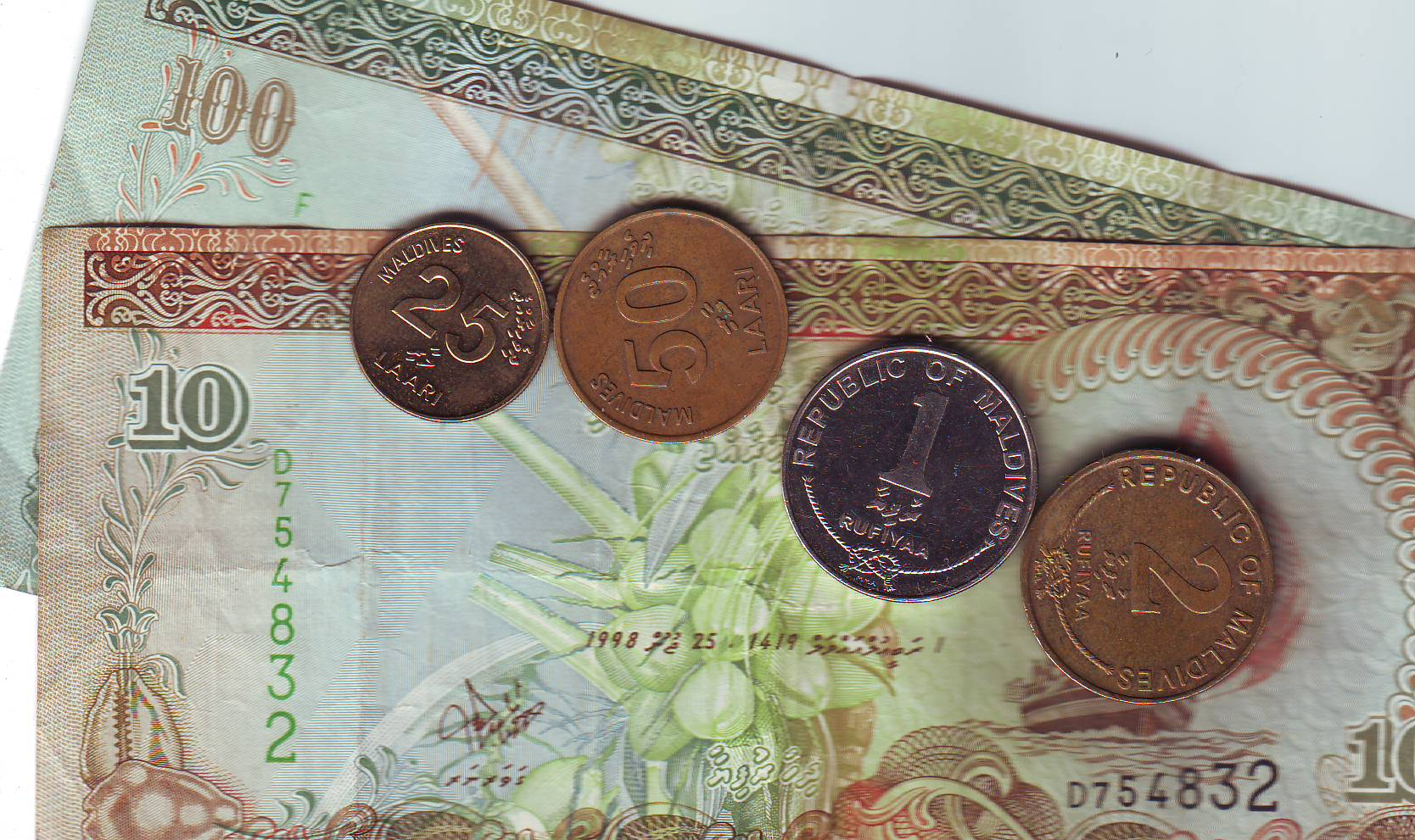 This image shows the Maldivian coins, from top to bottom; a 25 laari, a 50 laari, a 1 rufiyaa and a 2 rifiyaa. (The background shows a 100 rufiyaa note and a 10 rufiyaa note) Zooming in, you can read the english inscriptions on the coins.